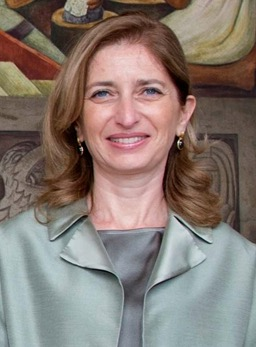 Laura Mattarella